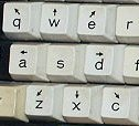 Photograph of the cursor keys (surrounding 'S') of the PLATO IV keyboard. Crop of an existing Wikipedia Photo.